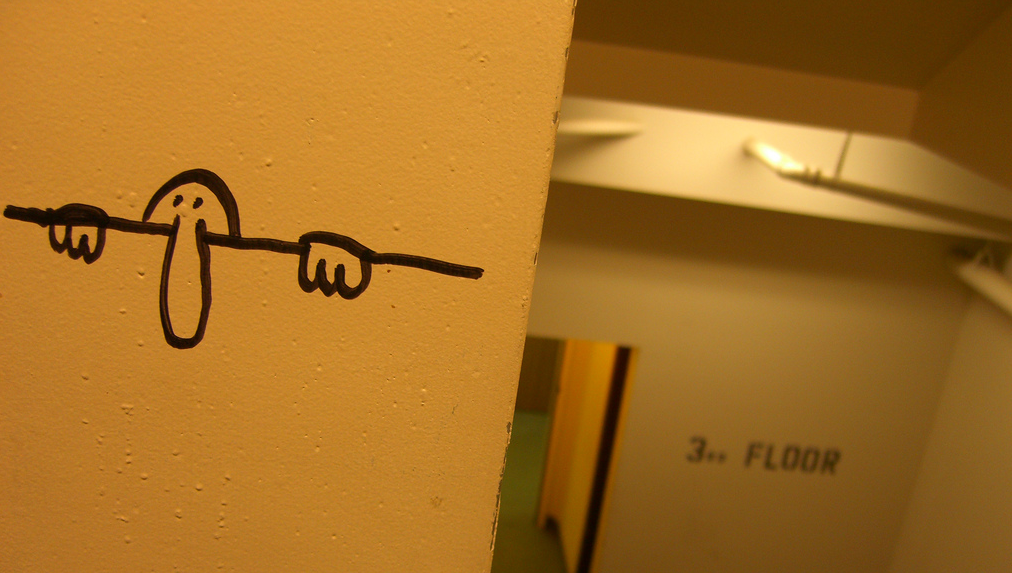 Chad in Olympia